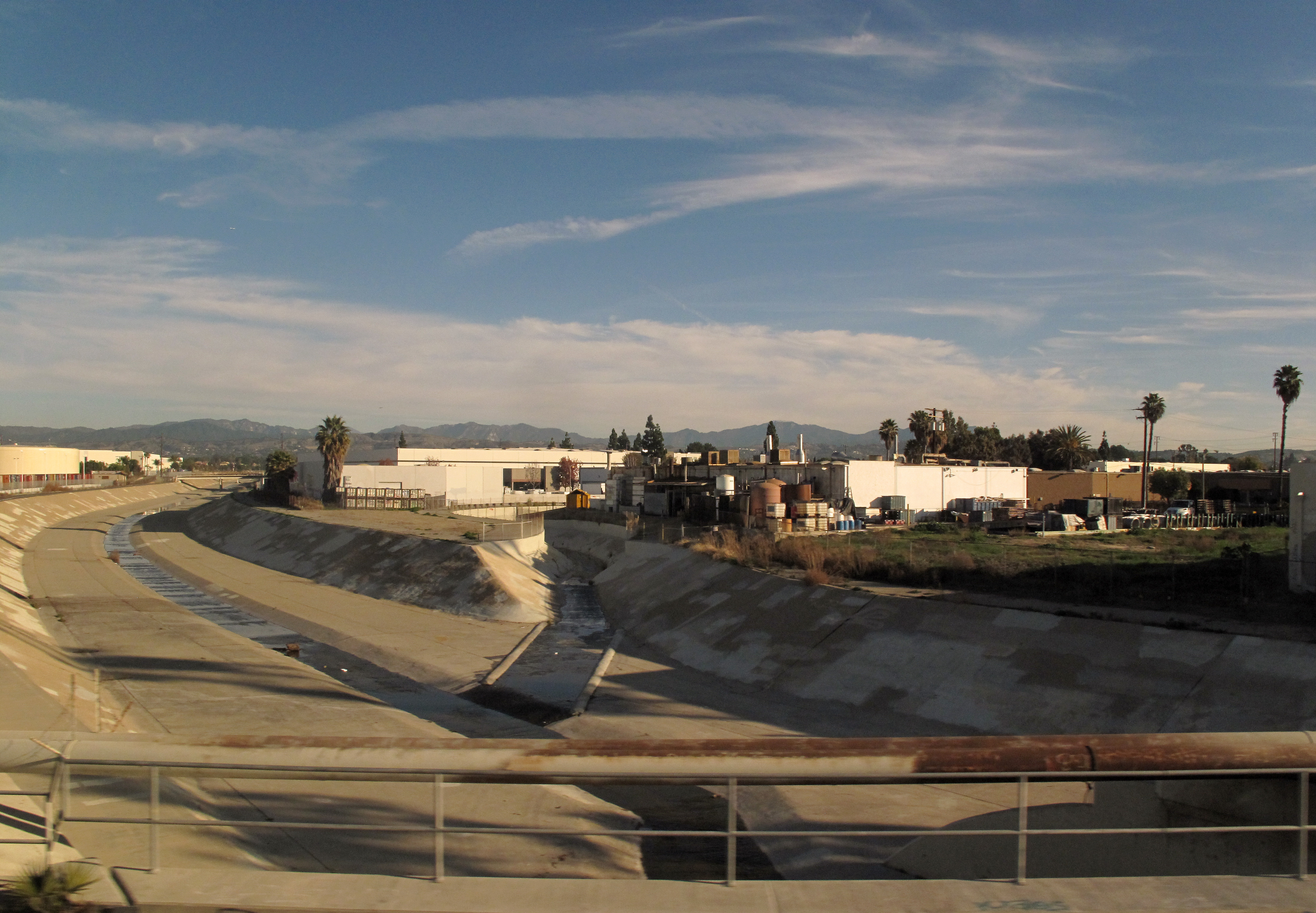 La Cañada Verde Creek tributary of Coyote Creek, with the Coyote Creek bicycle path to the left.